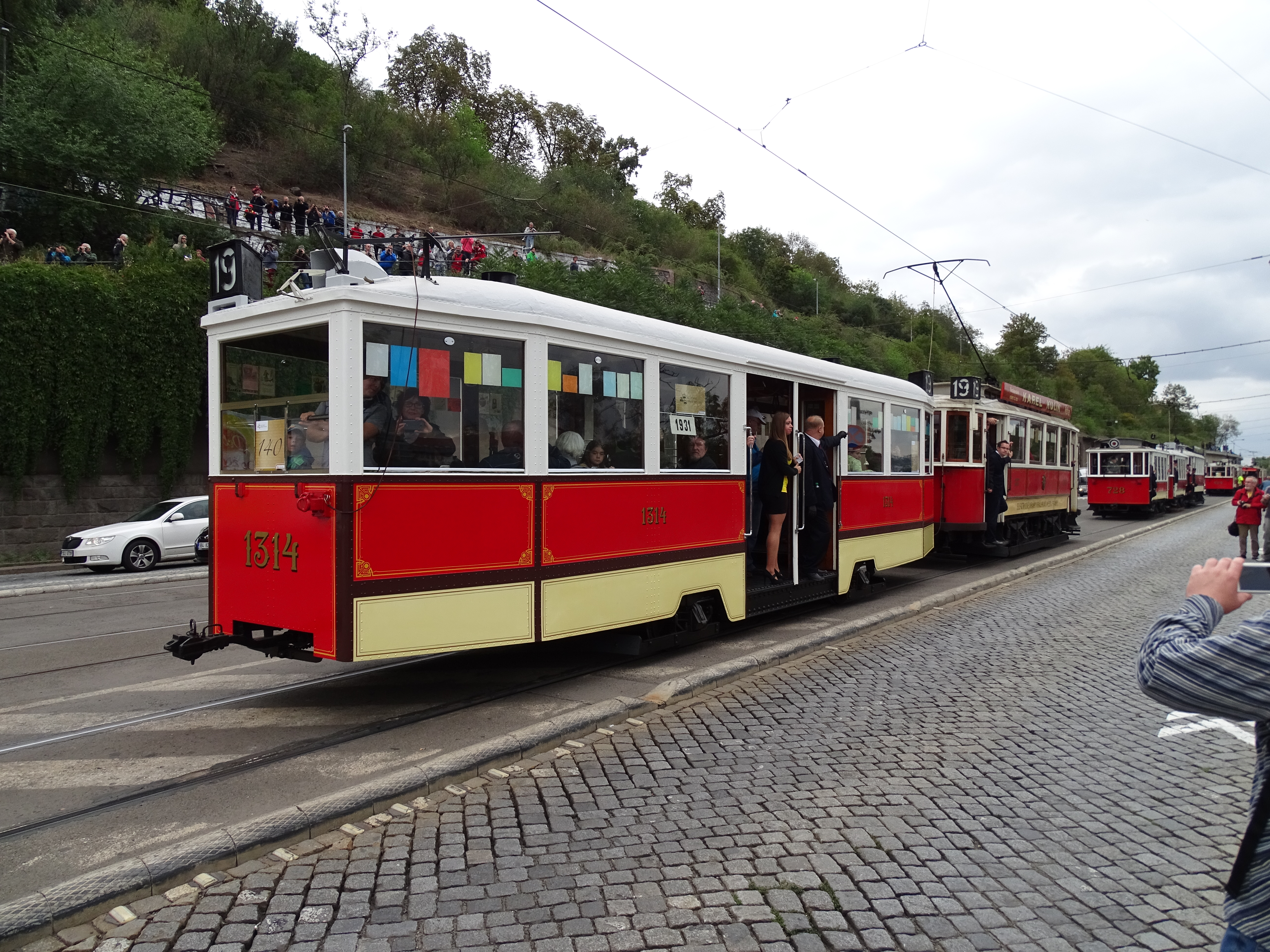 Prague-Holešovice, Czech Republic. Nábřeží Kapitána Jaroše, a tram parade, tram #357 + #1314.